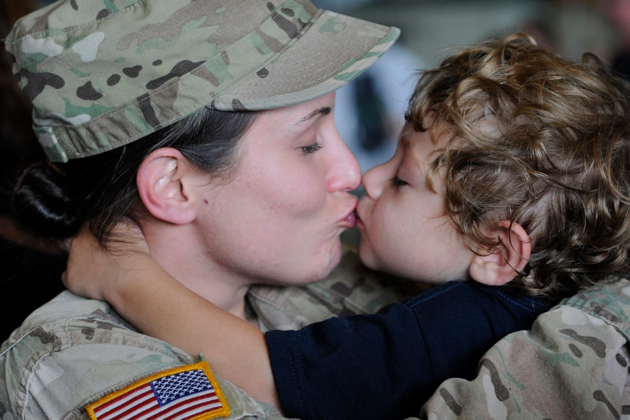 Spc. Sabrina Day, 132nd Military Police Company, South Carolina National Guard, smothers her three-year-old son, Blake with hugs and kisses Aug. 4, 2014, at Eagle Aviation in Columbia, S.C. upon returning from deployment to Afghanistan. (U.S. Army National Guard photo by Sgt. Brad Mincey)